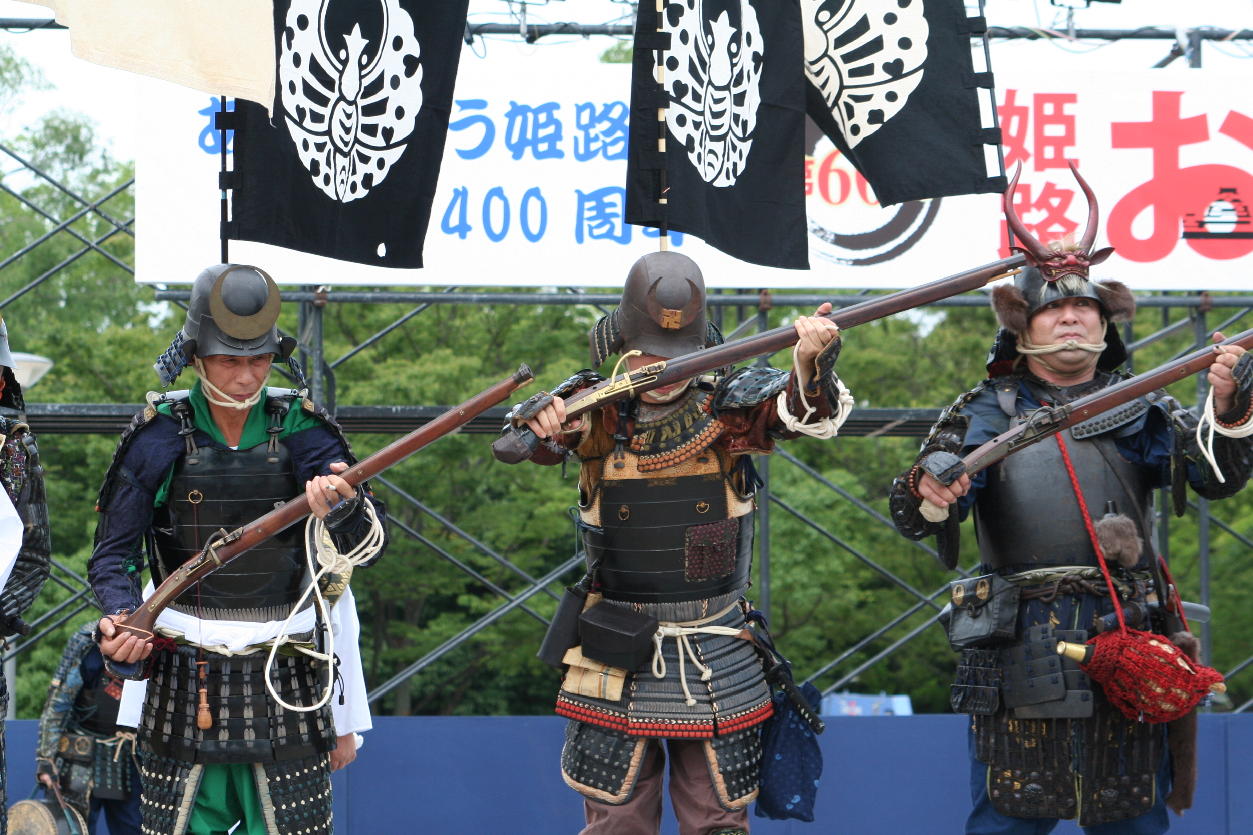 Himeji Castle Festival. This festival is held in Himeji City, Hyogo Prefecture every year for three days from the end of July to August 2 on Otemae Street in the south of Himeji Castle. The second day of the 60th festival. Reenactors with Tanegashima (matchlock) at Himeji Castle Festival (Himeji Oshiro Matsuri).